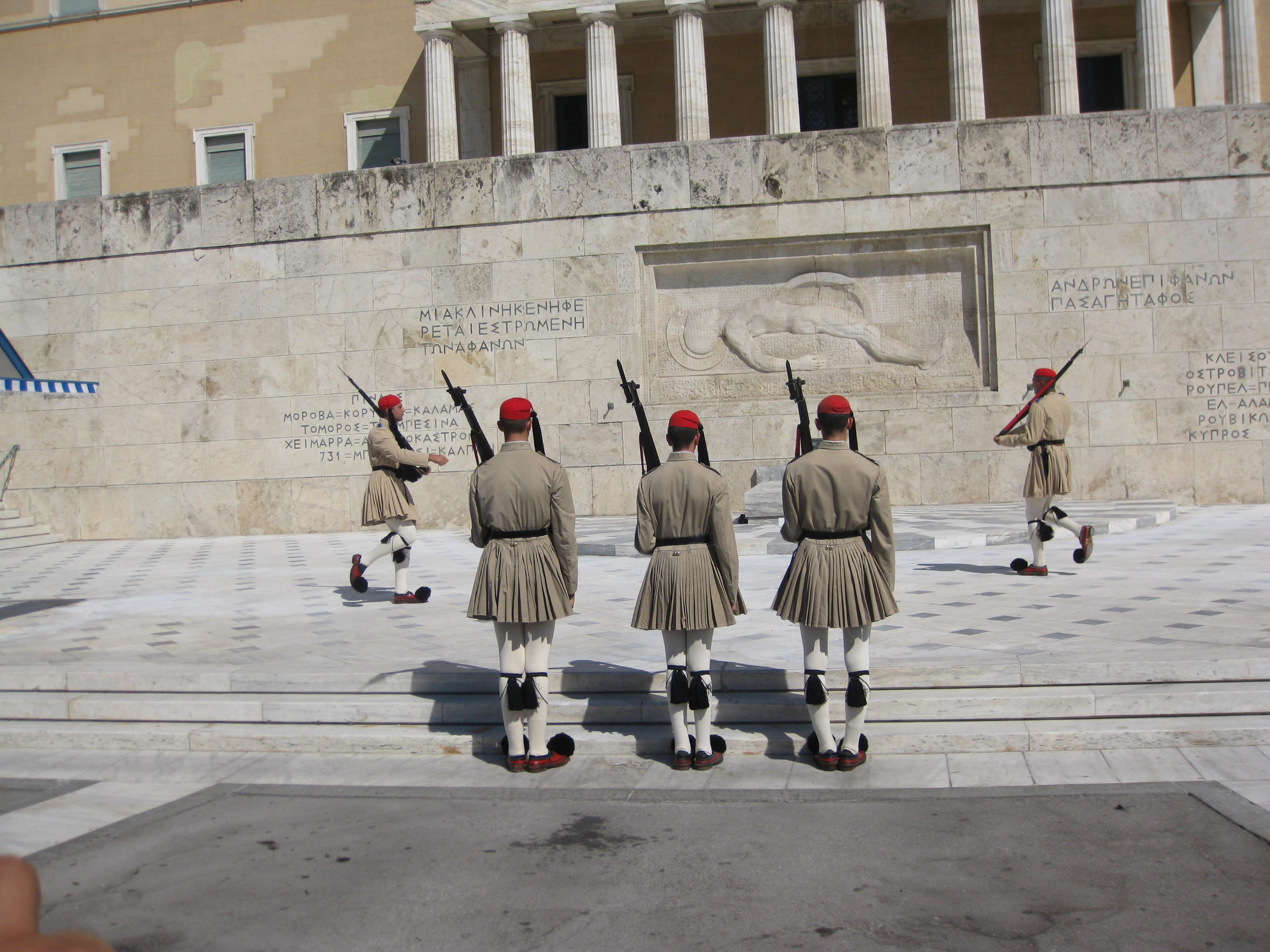 Athens, Greece